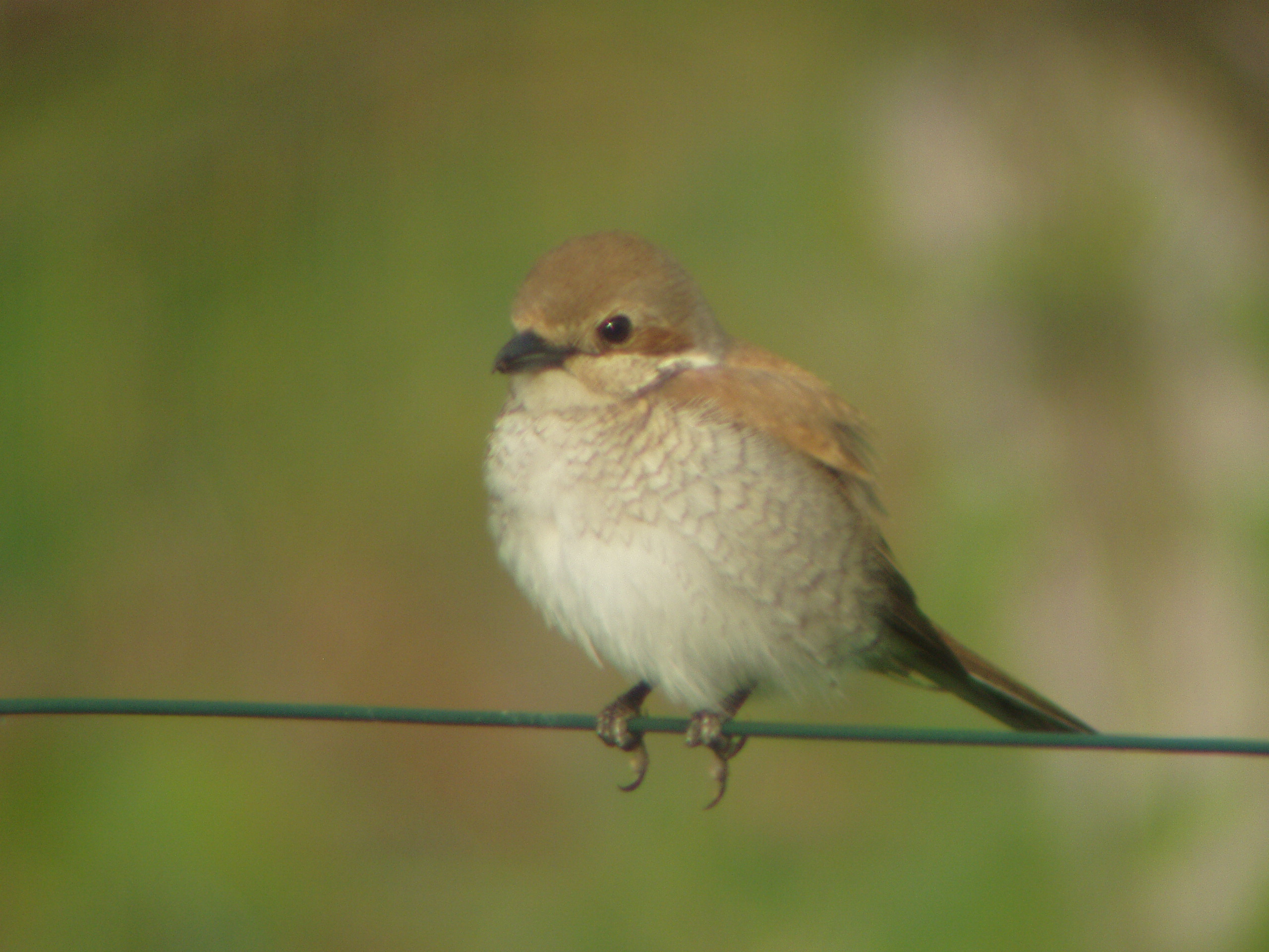 female Red-backed shrike